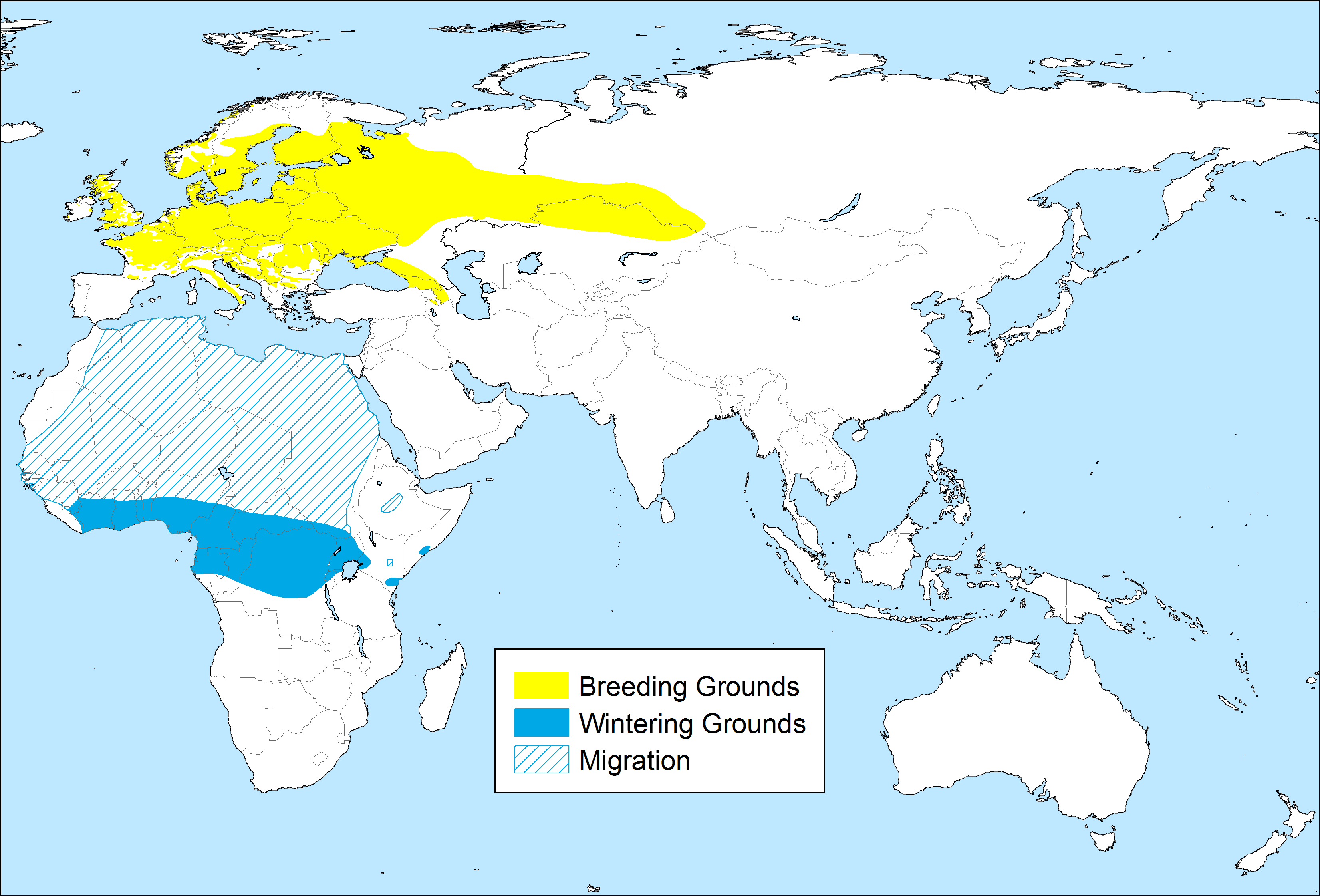 Yellow: breeding grounds Blue: wintering grounds Cross-hatched: migration range